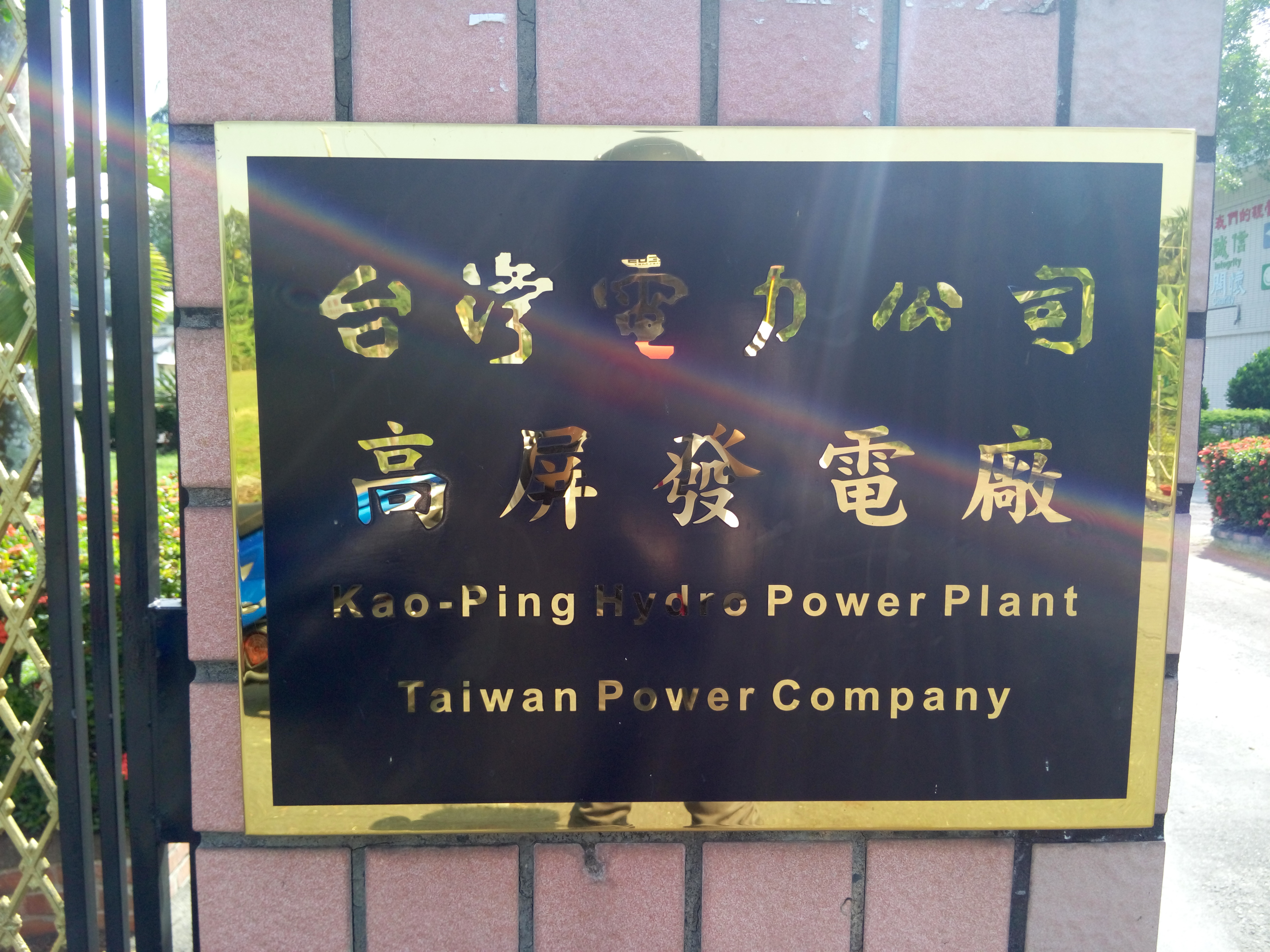 Kao-Ping Hydropower Plant, Taiwan Power Company plate.